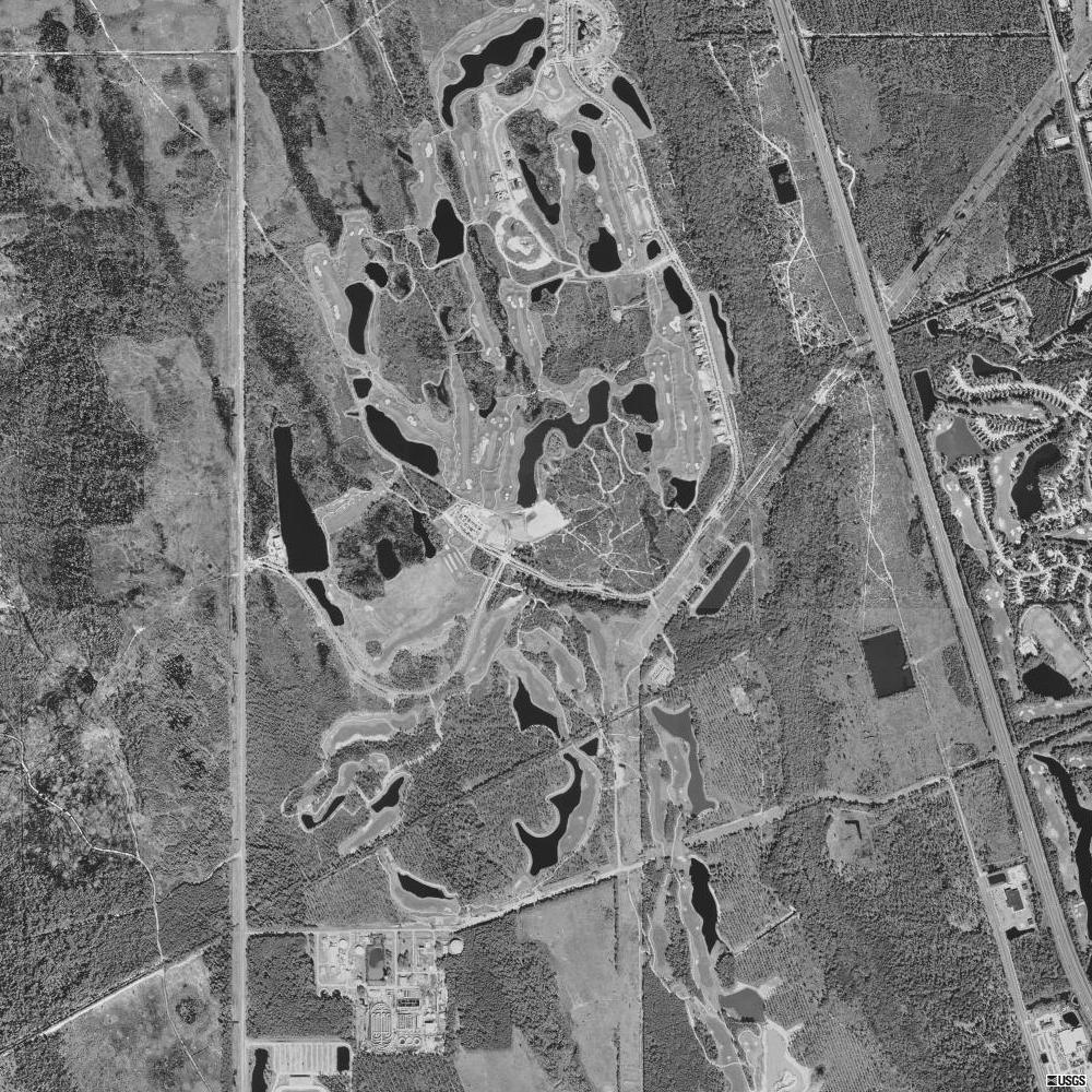 USGS digital orthophoto of LPGA International Golf Resort, Daytona Beach, Volusia County, Florida, United States.